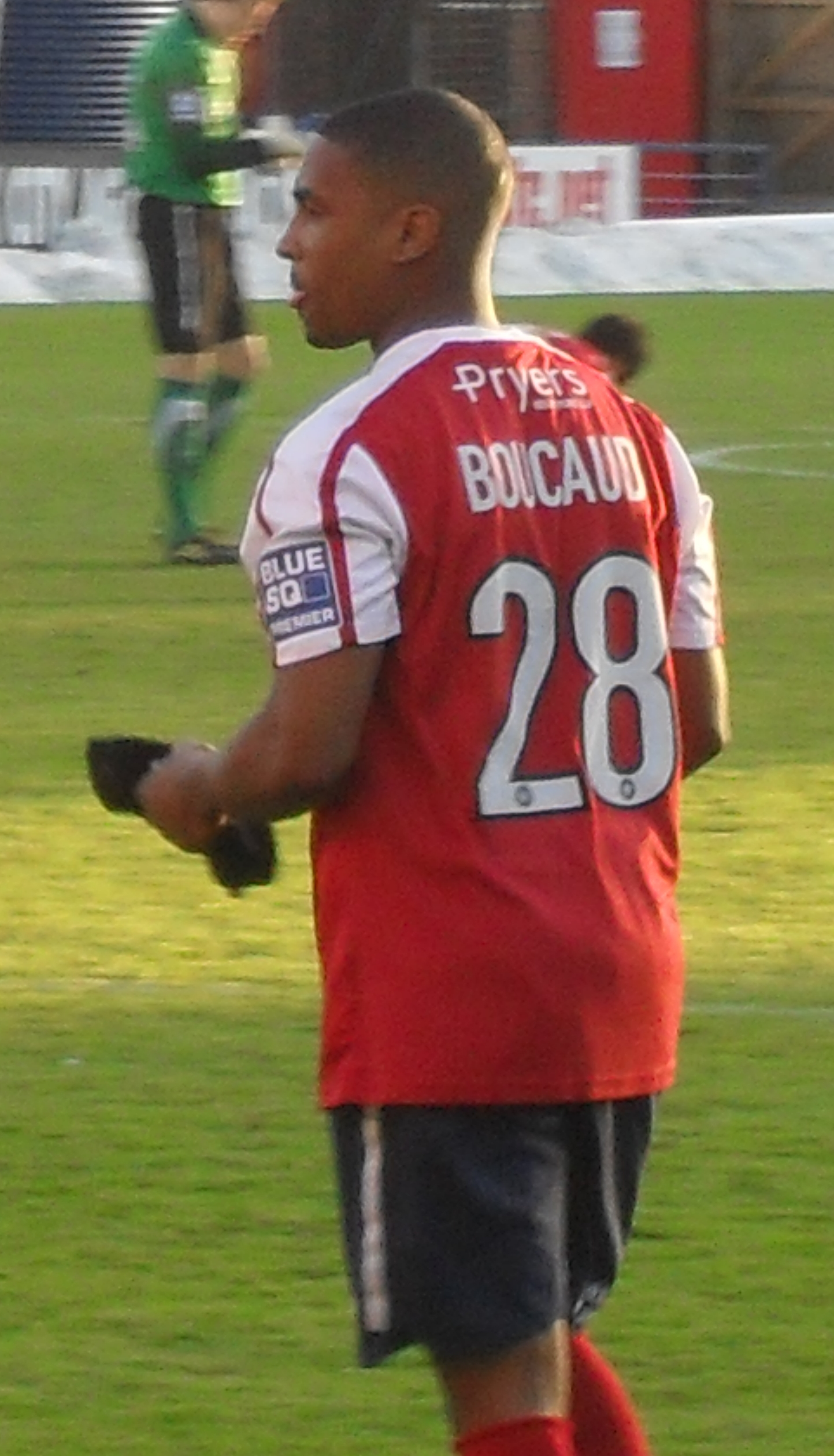 Andre Boucaud playing for York City against Boston United at Bootham Crescent, York on 11 December 2010